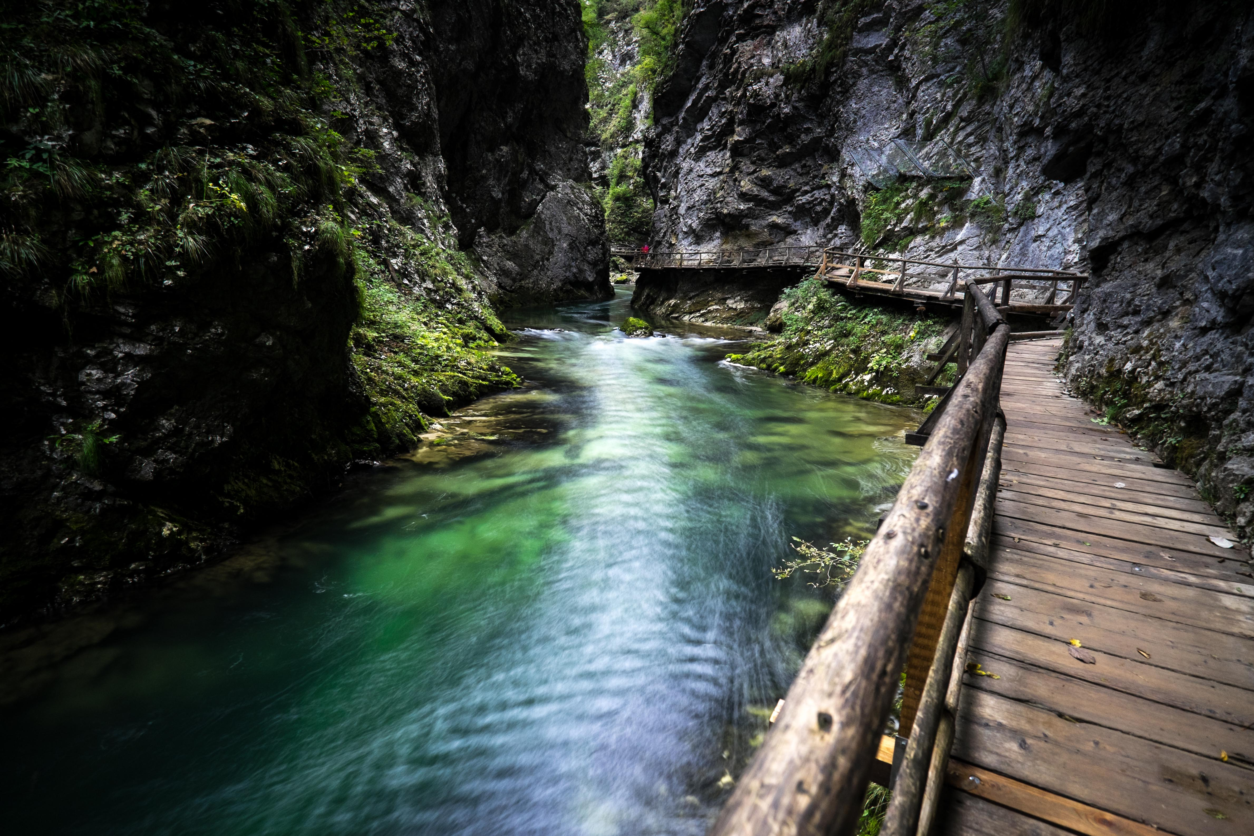 The Vintgar Gorge near Bled in Slovenia